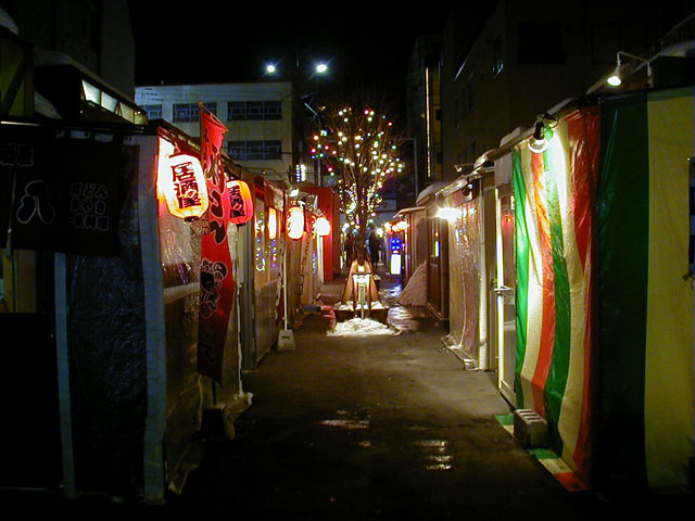 A picture of the Yatai, a small street of food stands, in the winter in the city of Obihiro, Hokkaido, Japan. This photo was uploaded by the photographer and can also be seen at on the photographer's website.